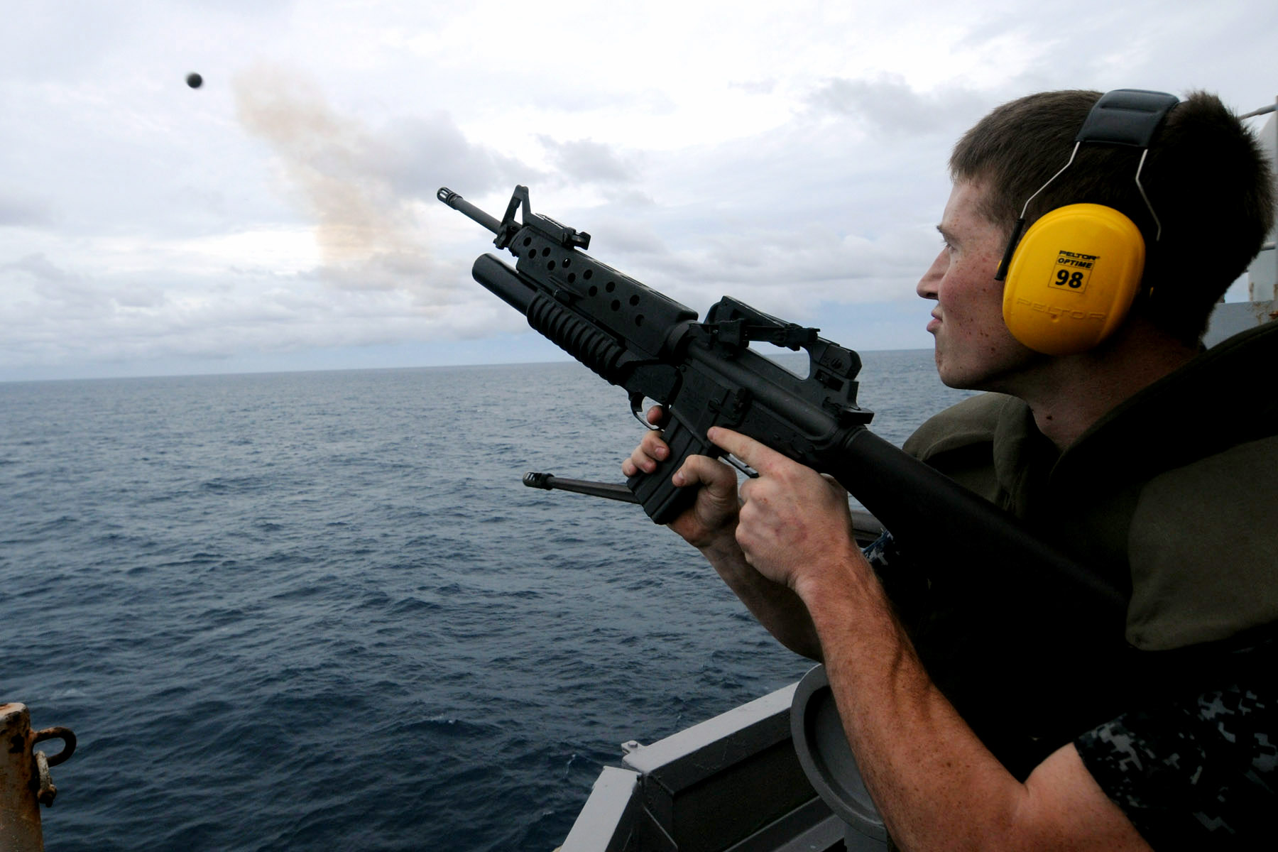 CARIBBEAN SEA (Sept. 26, 2010) Gunner's Mate 3rd Class Andrey Murry, from Hickory, N.C., fires a grenade from an M203 grenade launcher during a live-fire exercise aboard the multi-purpose amphibious assault ship USS Iwo Jima (LHD 7). (U.S. Navy photo by Mass Communication Specialist 2nd Class Zane Ecklund/Released)